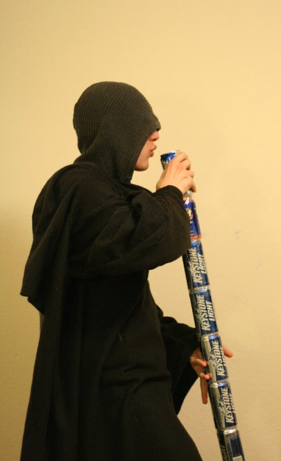 Example of an individual playing Wizard Staff.